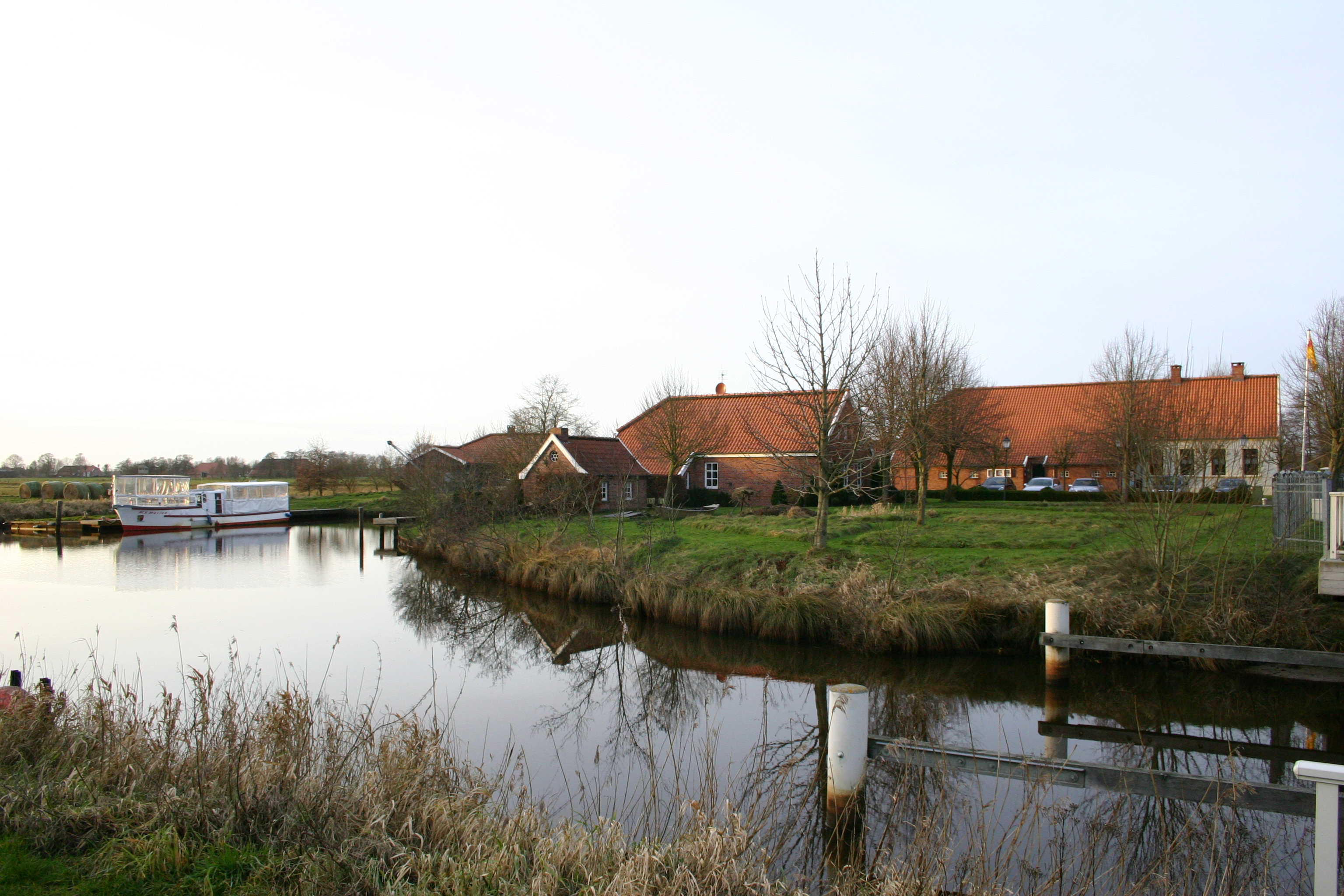 Fehnmuseum Eiland, a museum in Großefehn, district of Aurich, East Frisia, Germany, dedicated to the (internal) colonization of the fen areas of that region from the 17th century onwards